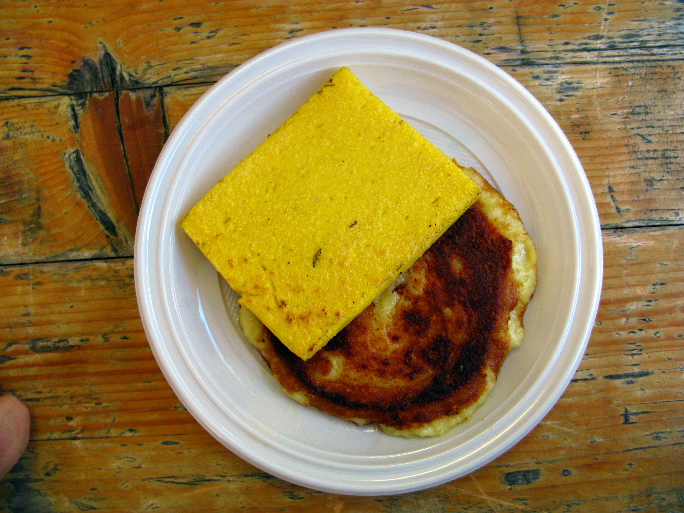 Polenta and Frigga as light meal on plastic plate at Thanksgiving 2008 in Resiutta in the Fella valley / Canal del Ferro / Friuli-Venezia Giulia / Italy / EU. Further search items: used wooden desk, texture, brown, white plate, yellow, eggs, snack, fatty food, typical Friulan cuisine, roasted.